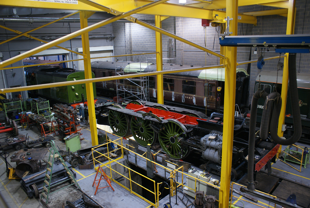 The frames of Flying Scotsman in the foreground and tender of 60163 Tornado in the rear, at the National Railway Museum workshops, York, England.